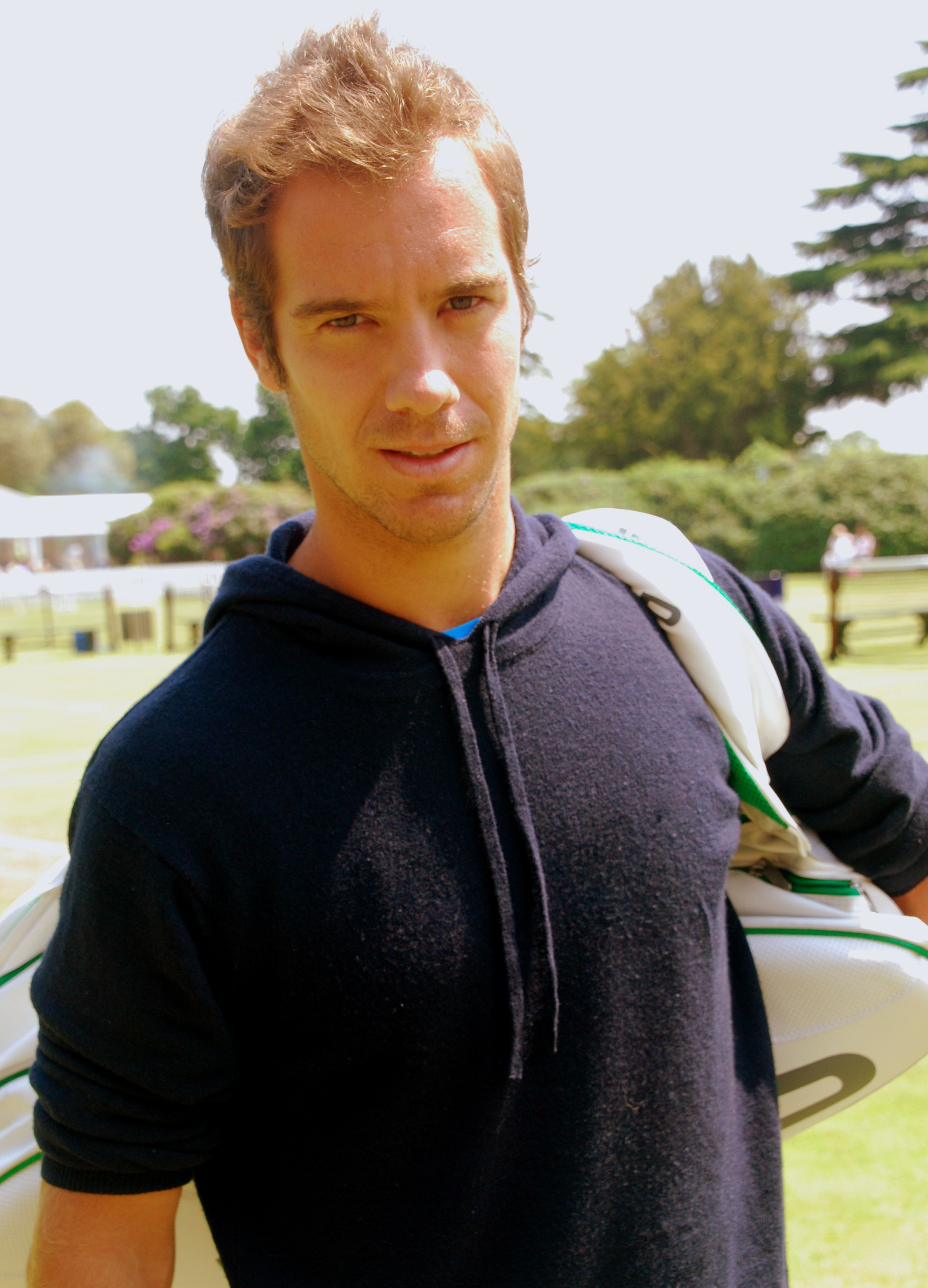 The Boodles, Stoke Park, 2013.